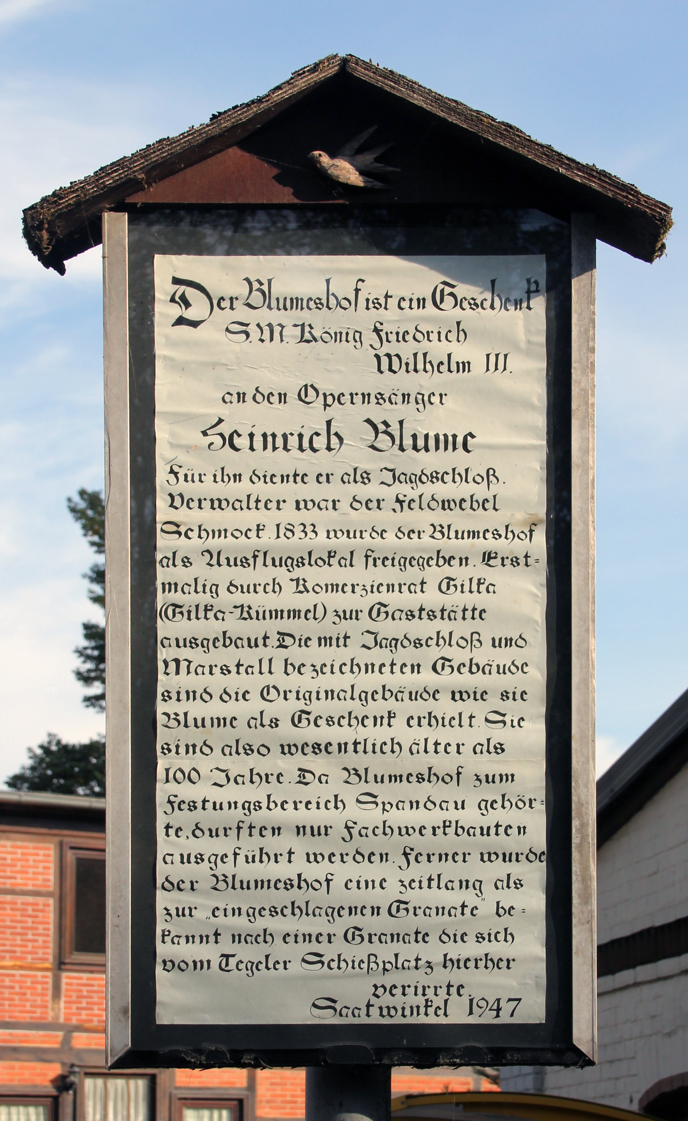 Memorial plaque, Heinrich Blume, Im Saatwinkel 55, Berlin-Tegel, Deutschland